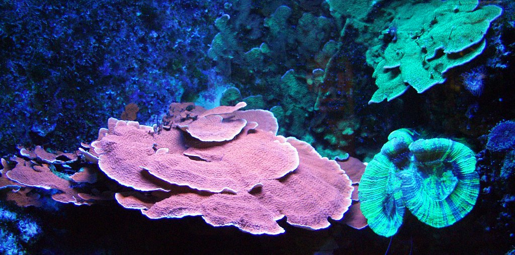 Steinkorallen (Montipora sp.) and (Scolymnia Scolymia sp.) at Aquazoo-Löbbecke-Museum Düsseldorf